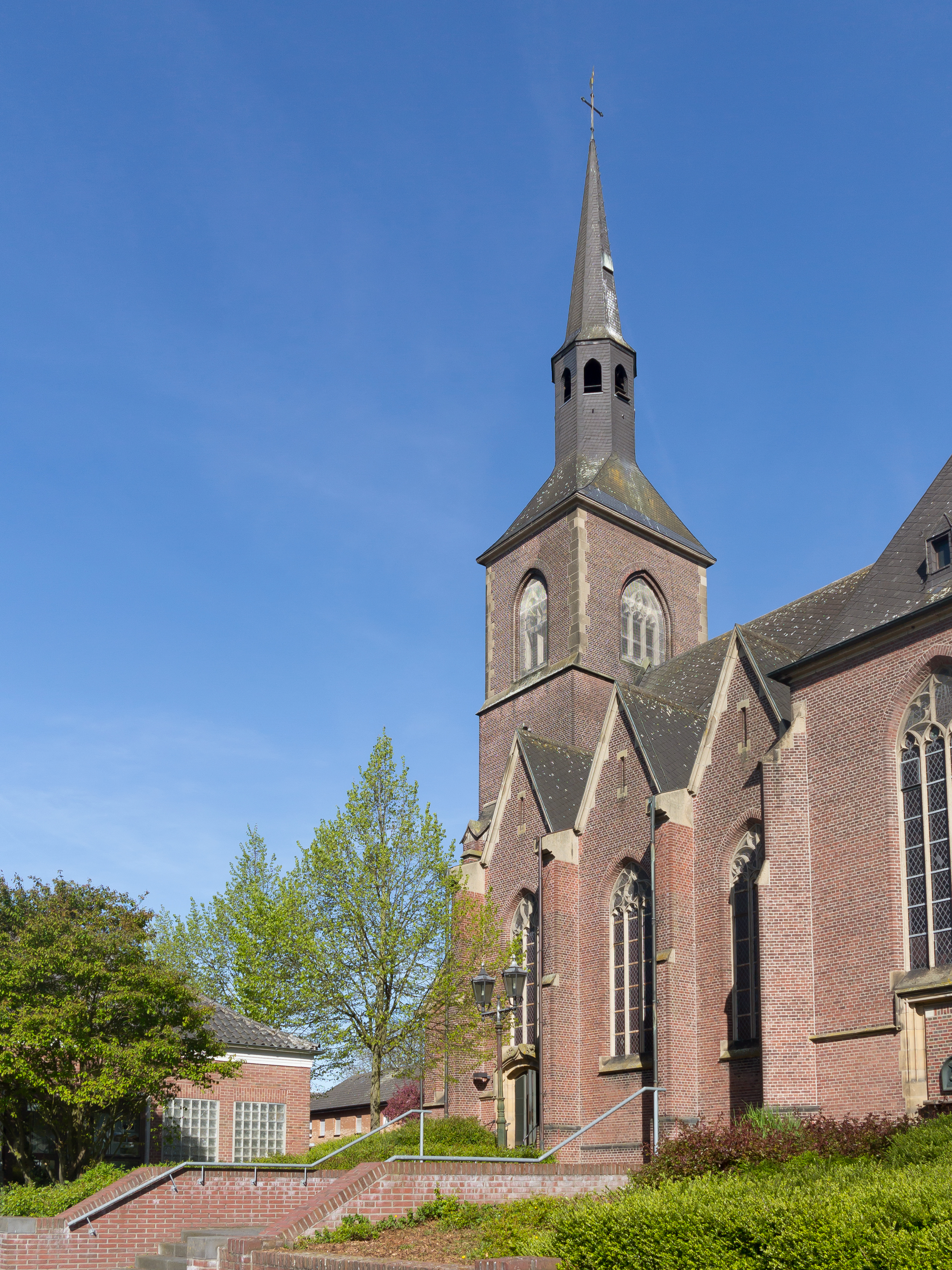 Wankum, churchtower: die Sankt Martin Kirche